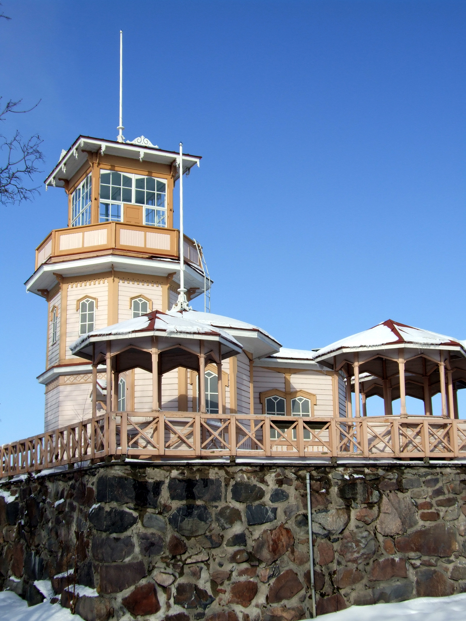 The old observatory in Linnansaari in Oulu, Finland. The building was designed by architect Wolmar Westling and completed in 1873. It is built on top of the ruins of the castle of Oulu.